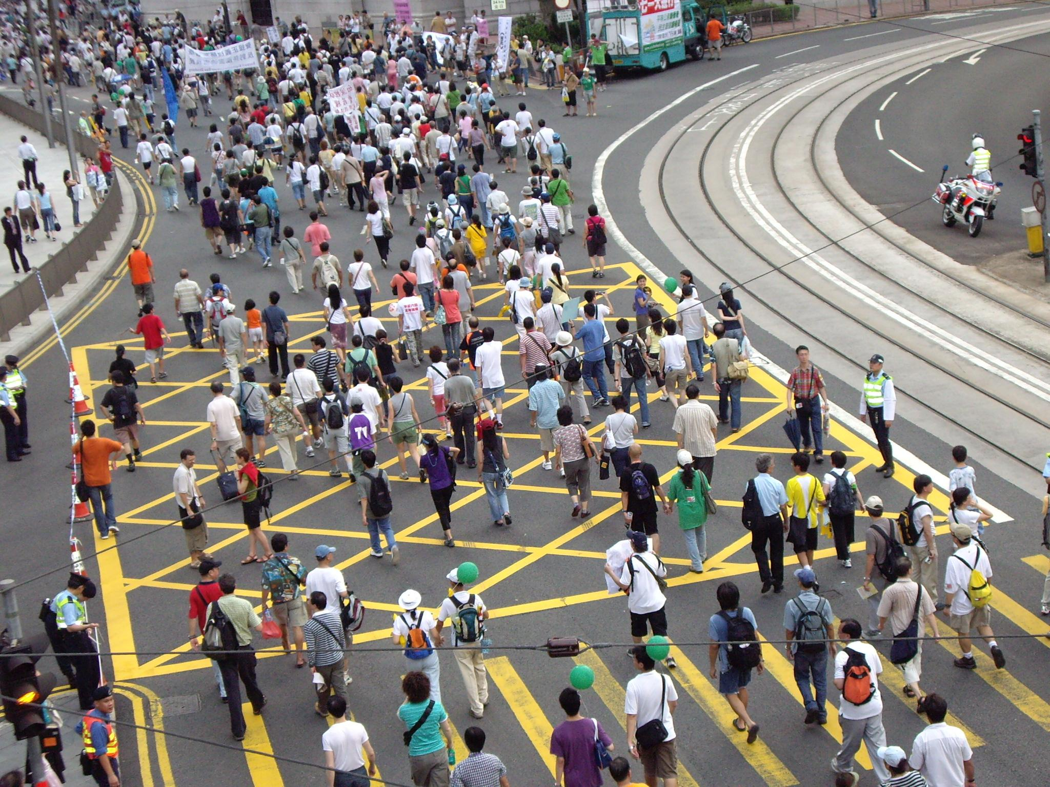 July 1 Marches in 2006, Hong Kong